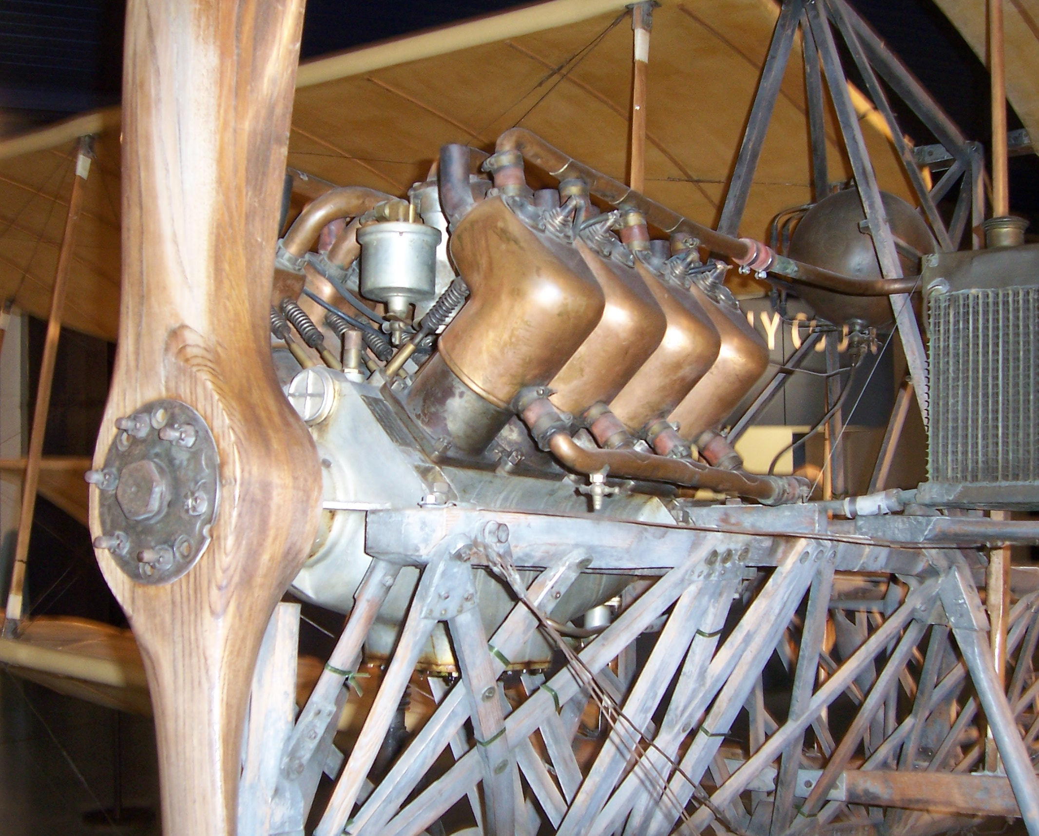 Antoinette ENV left at Verkehrshaus Luzern